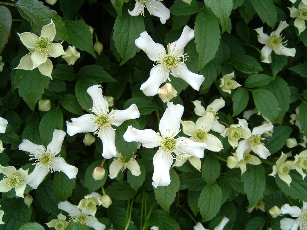 Clematis montana var. wilsonii